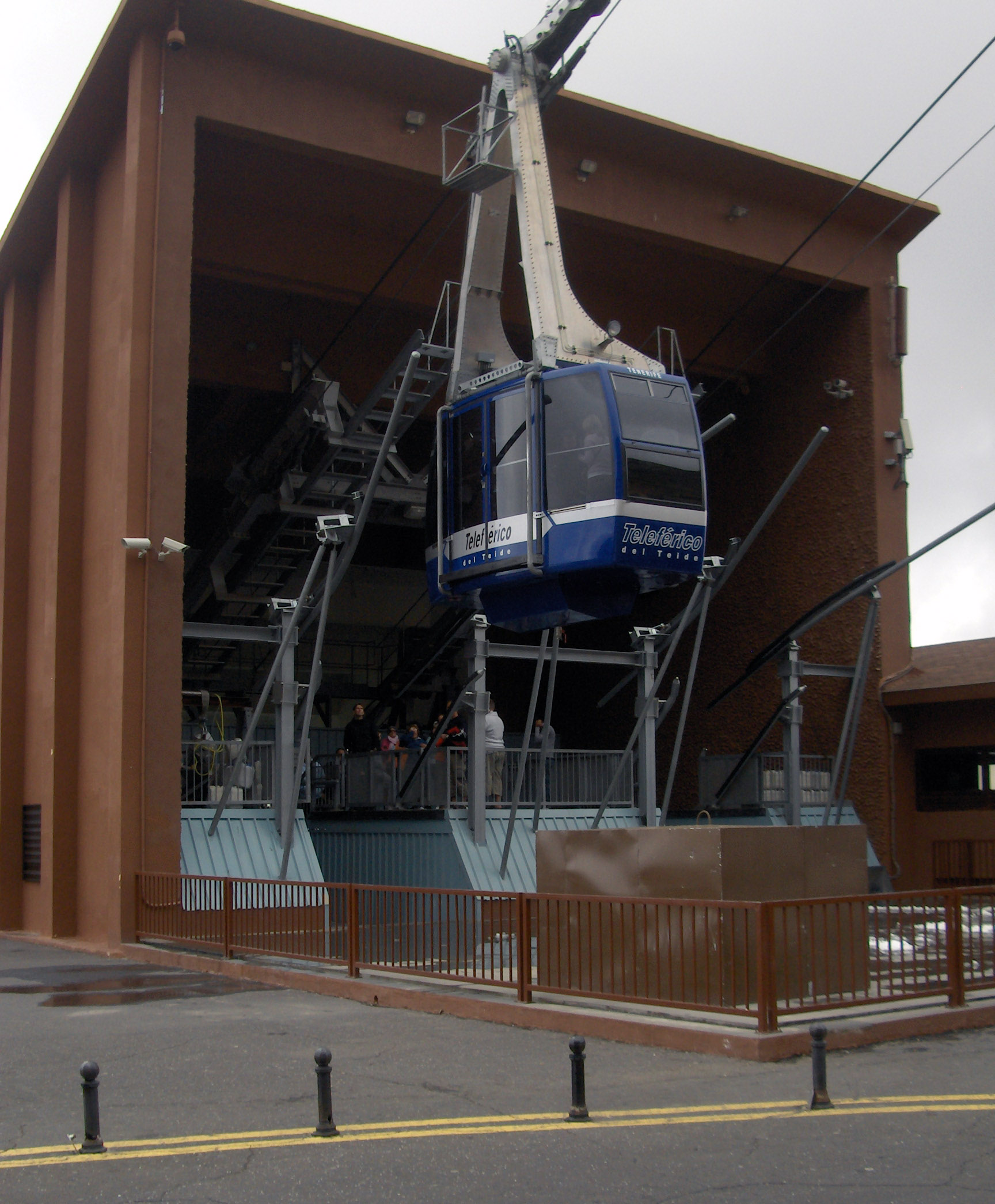 The Cabel Car at Teide, Tenerife, Spain.